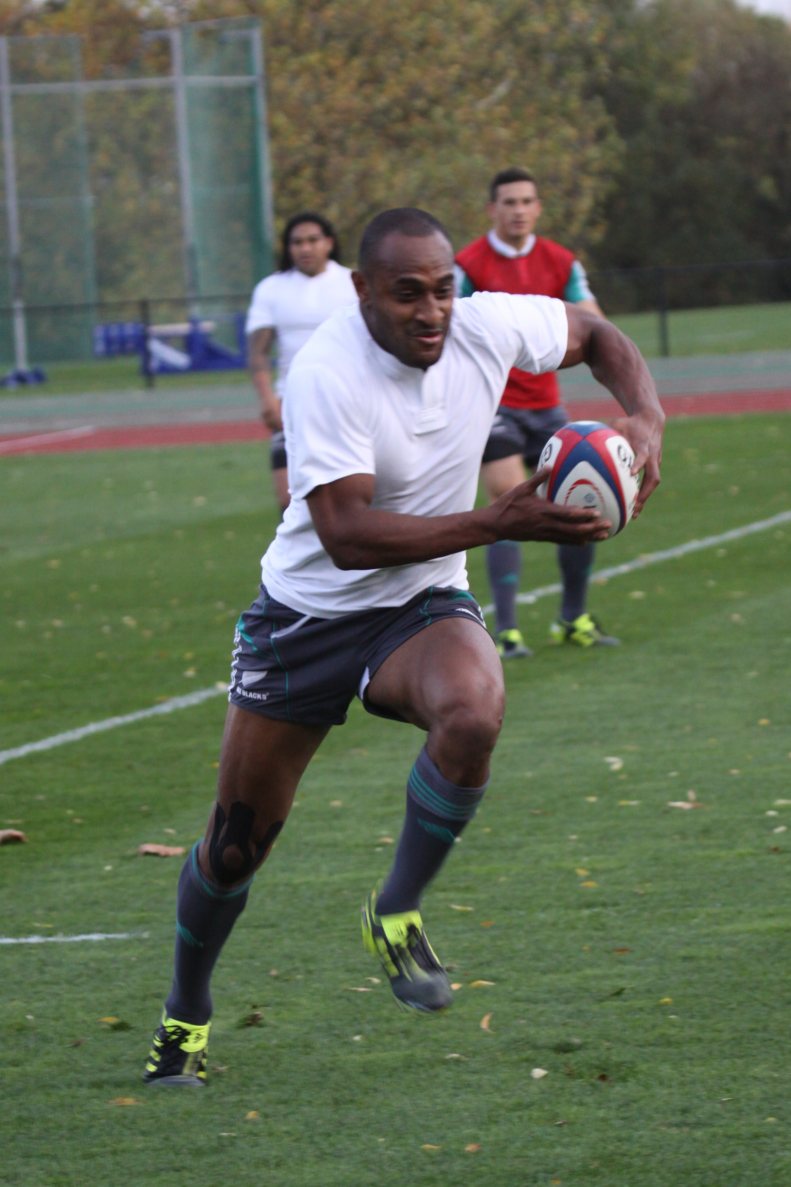 Joe Rokocoko at Training with the All Blacks